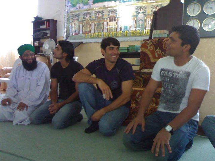 Muhammad Hafeez, Misbah-ul-Haq, Kamran Akmal with Muballigh-e-Dawateislami